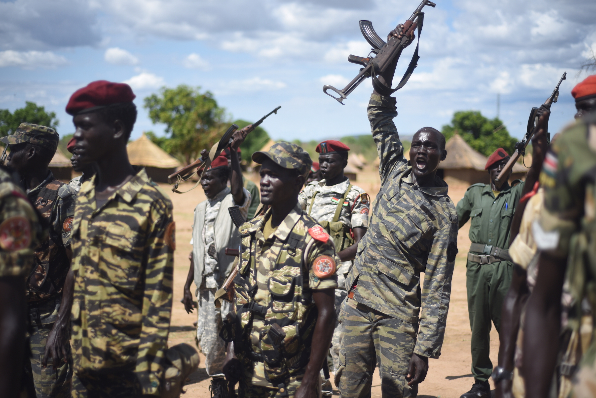 SPLA soldiers near Juba on 14 April 2016.